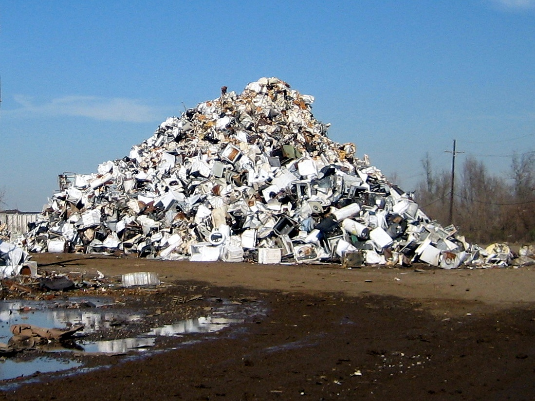 New Orleans after Hurricane Katrina: Mounds of trashed appliances with a few smashed automobiles mixed in, waiting to be scrapped, are piled along an access road in the industrial area in back of the Lower 9th Ward. Photo by Infrogmation.